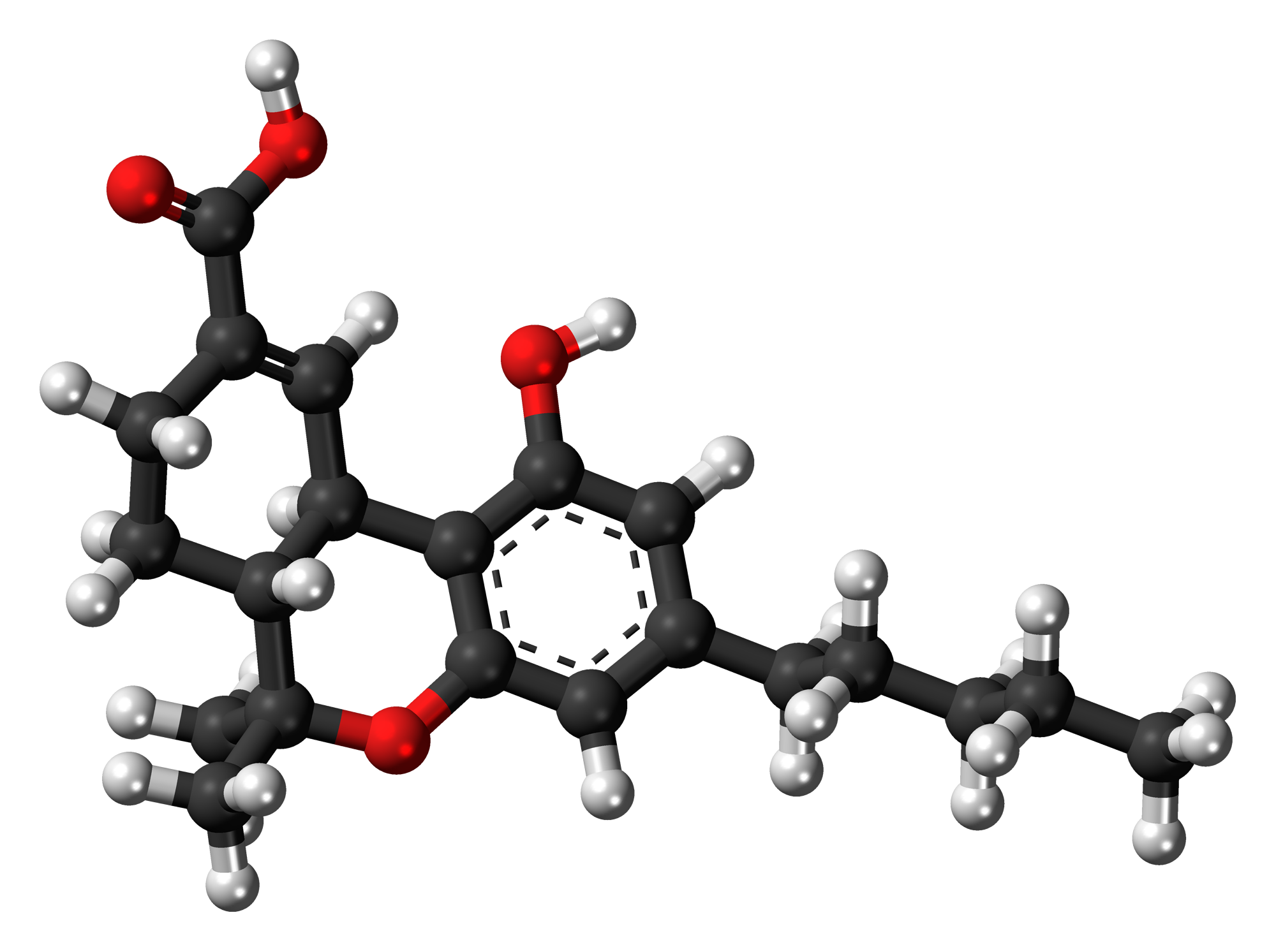 Ball-and-stick model of the 11-nor-9-carboxy-delta-9-tetrahydrocannabinol molecule, also known as THC-11-oic acid, a metabolite of THC, which is formed in the body after Cannabis is consumed. Colour code: Carbon, C: black Hydrogen, H: white Oxygen, O: red